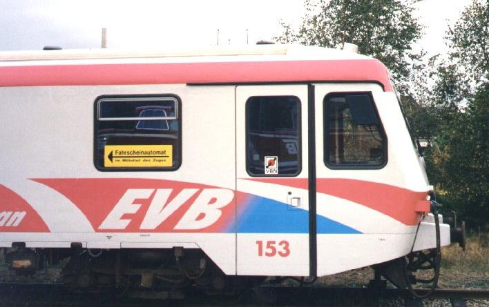 Class 628 DMU of the Eisenbahnen und Verkehrsbetriebe Elbe-Weser (EVB). Picture taken at Bremervörde depot, October 3rd 1998.